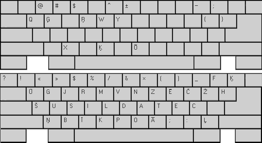 Latvian ergonomic keyboard layout made according to keyboard layout editor of Tildes Birojs software.